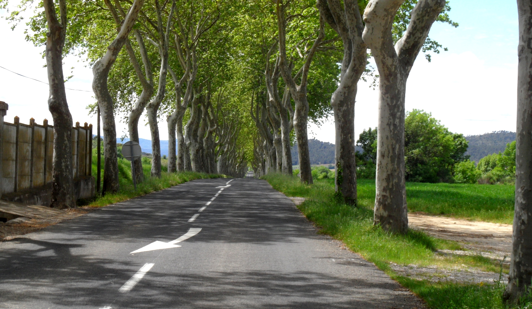 driveway of plane trees in Tournissan, Aude, France